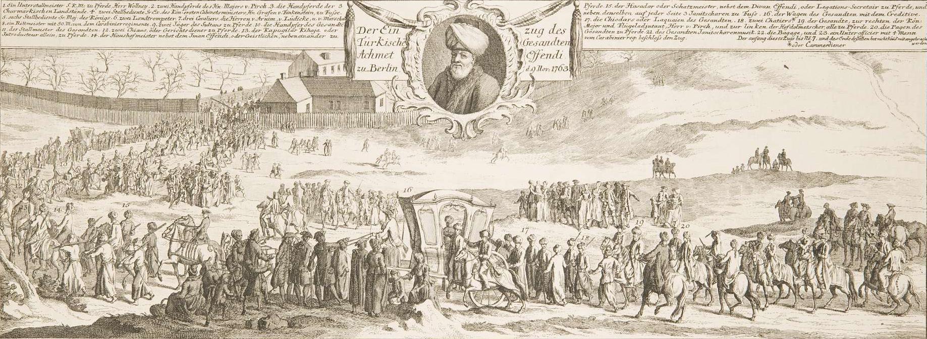 Ahmed Resmî Efendi (1700 - 1783) Greek Ottoman Effendi arrival in Berlin on the 9th of November 1763.